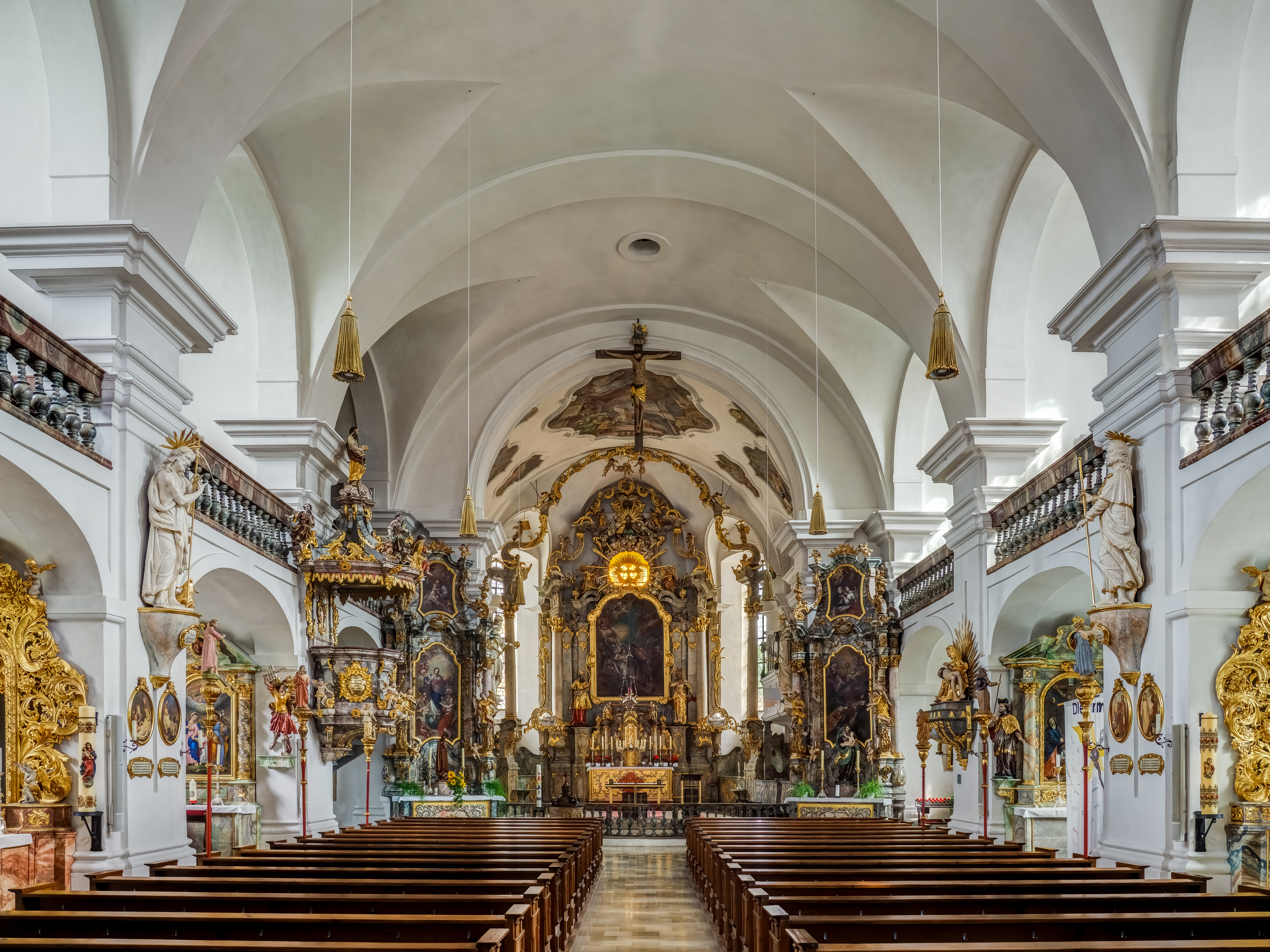 Interior of the church St. John the Baptist in Auerbach in the Upper Palatinate